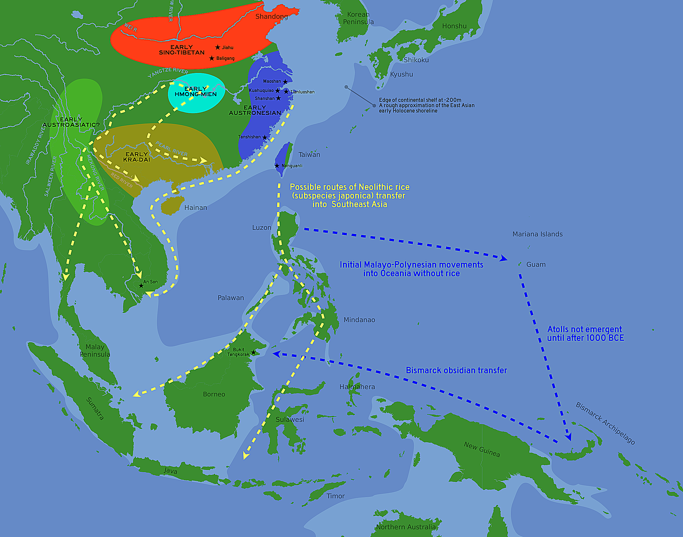 Likely routes of early rice transfer, and possible language family homelands (archaeological sites in China and SE Asia shown) per: Bellwood, Peter (9 December 2011). "The Checkered Prehistory of Rice Movement Southwards as a Domesticated Cereal—from the Yangzi to the Equator" (PDF). Rice. 4 (3–4): 93–103. Based on File:Blank map world rivers.svg by User:丁志仁